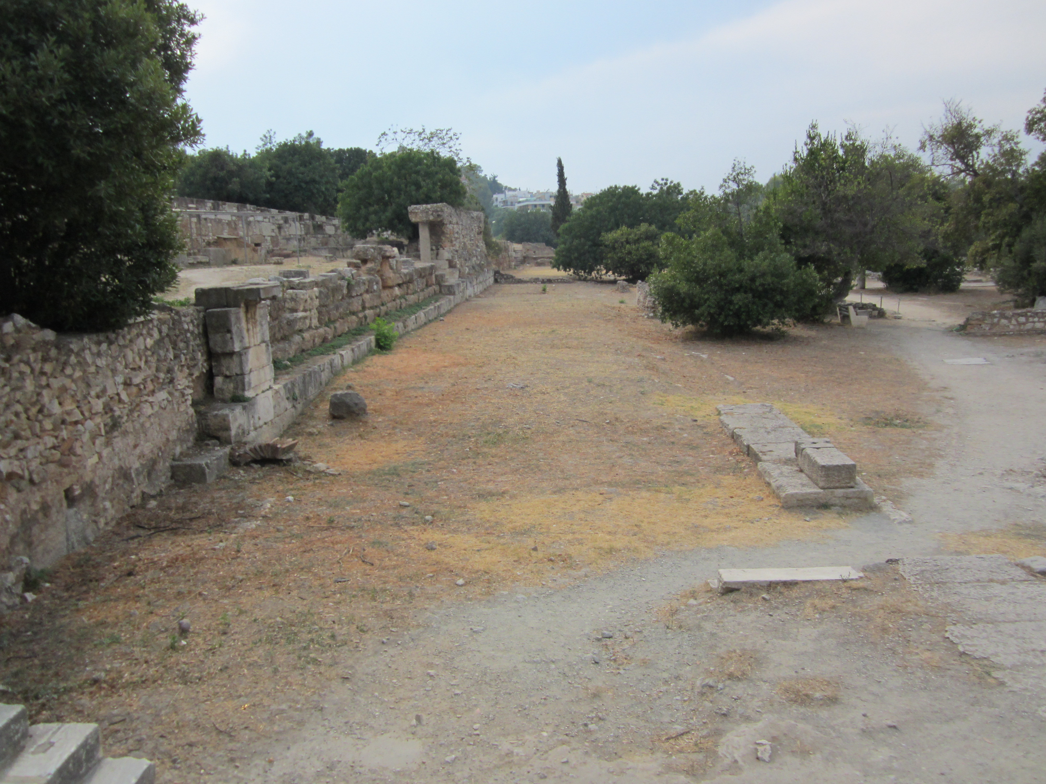 South Stoa. Ancient Agora of Athens, Greece.